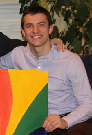 Cason Crane in Canada, December 2013